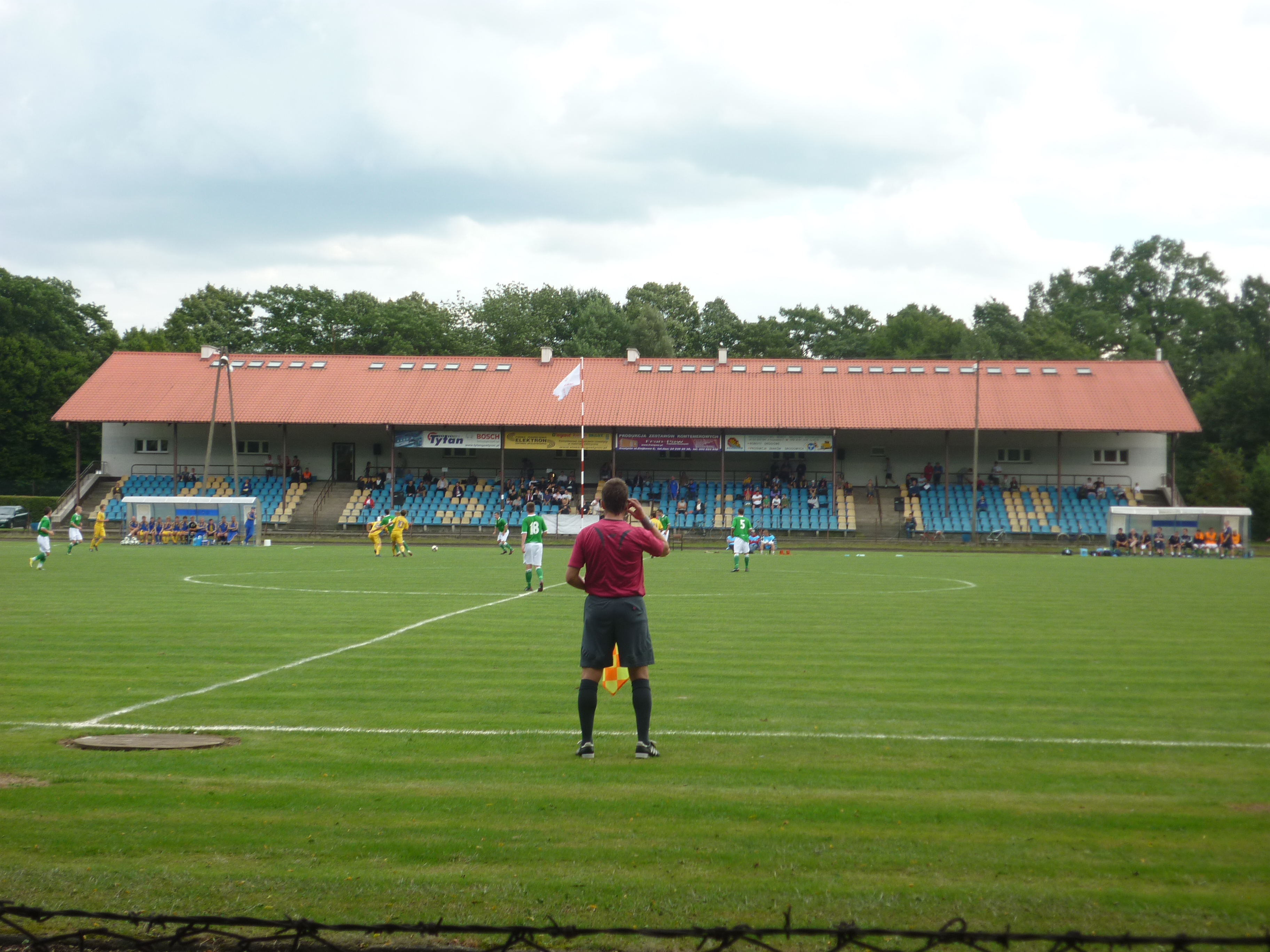 Janusz Kusociński Stadium, home ground of Mazur Gostynin